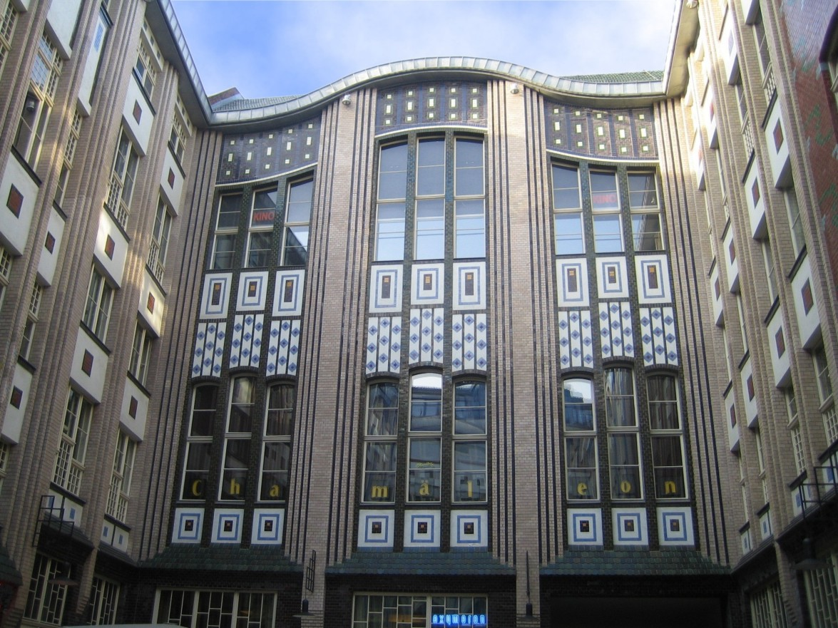 The "Hackesche Höfe" in Berlin, facade at the first court